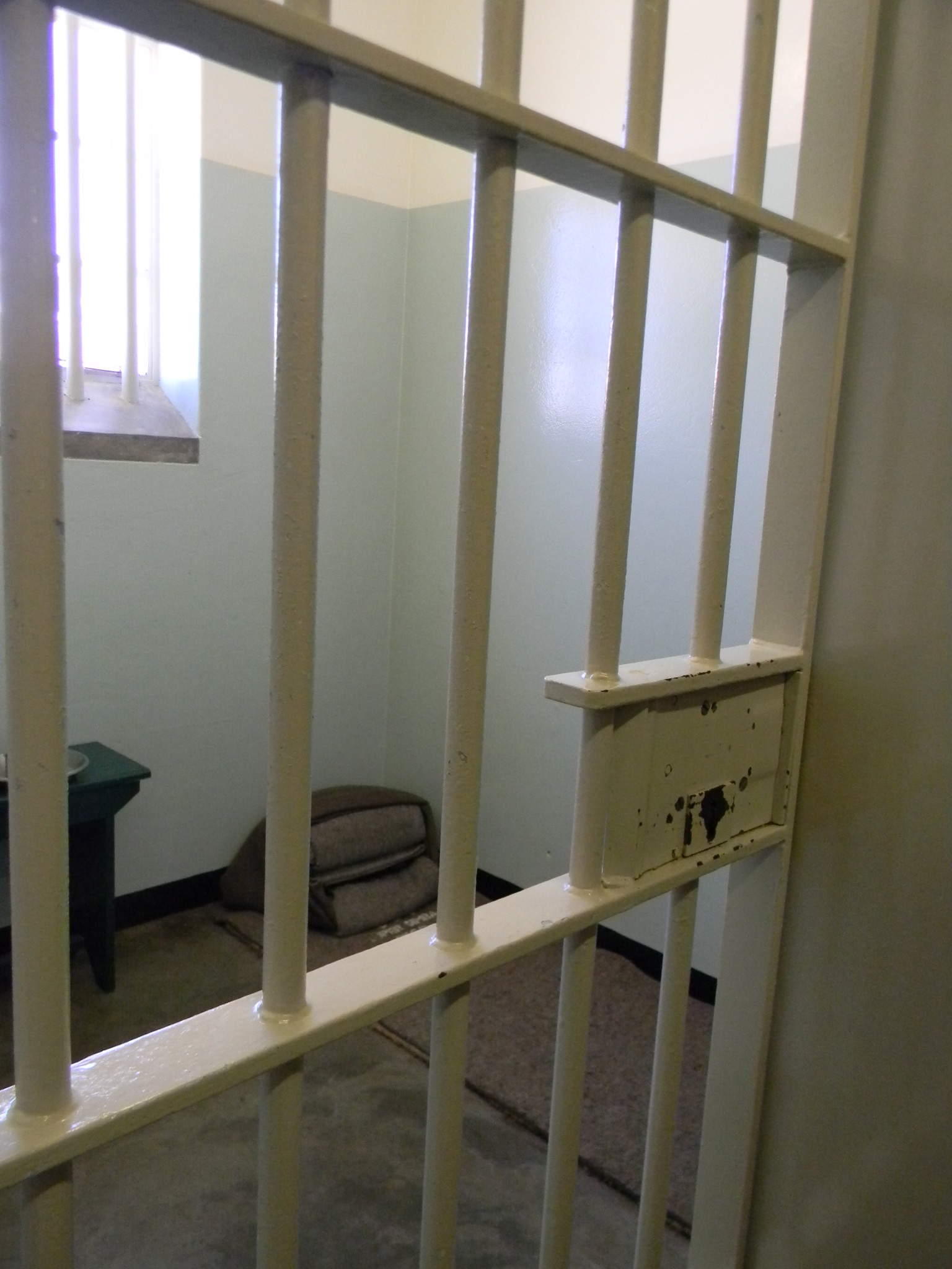 Robben Island Jail, Cape Town, Western Cape This media shows a South African Protected Site with SAHRA file reference 9/2/018/0004.